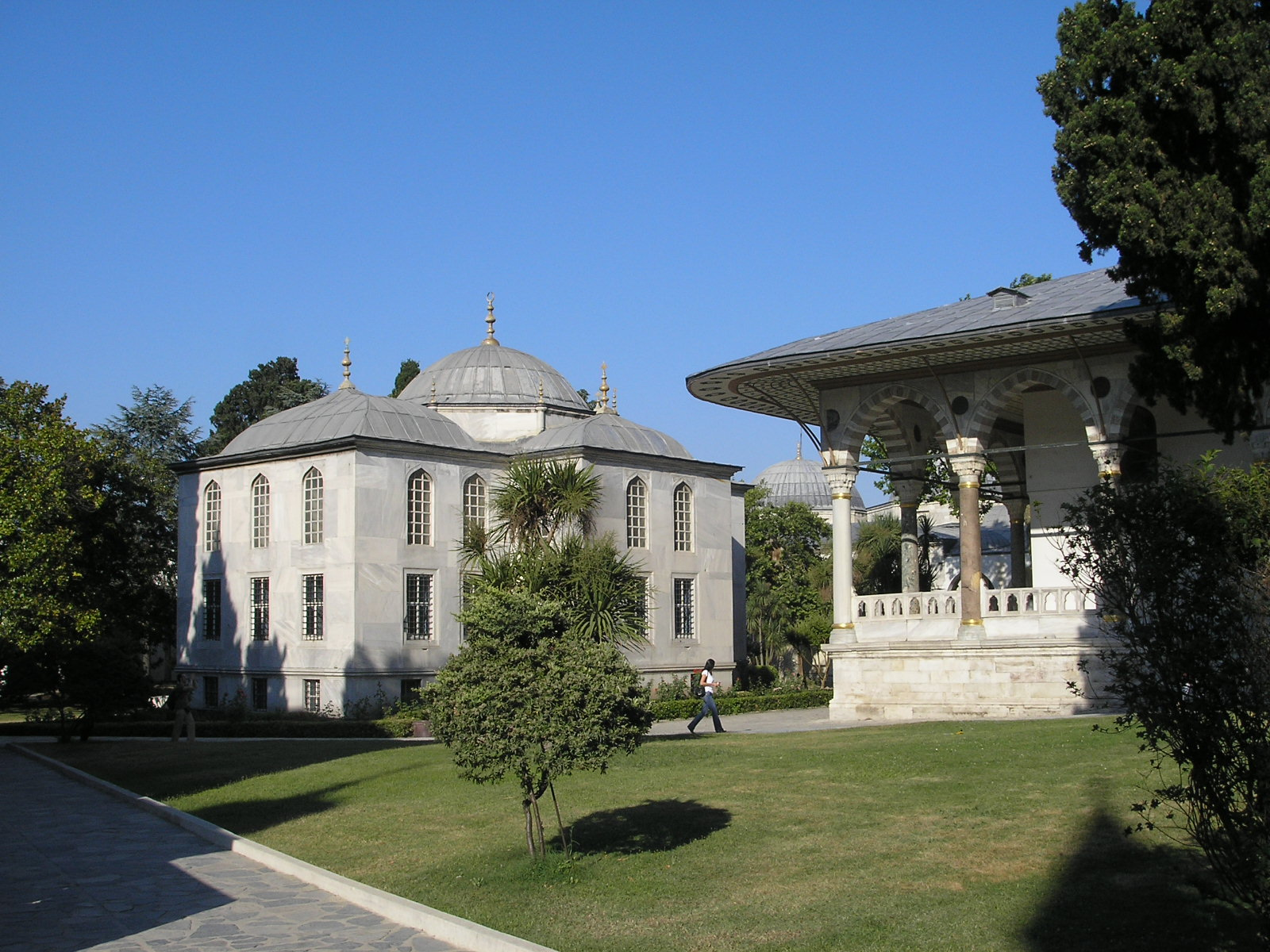 The Neo-classical Enderûn Library (Enderûn Kütüphanesi), also known as Library of Sultan Ahmed III (III. Ahmed Kütüphanesi), is situated directly behind the Audience Chamber (Arz Odası) in the centre of the Third Court of the Topkapi Palace in Istanbul.